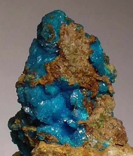 Liroconite Locality: Wheal Gorland, St Day United Mines (Poldice Mines), Gwennap area, Camborne - Redruth - St Day District, Cornwall, England, UK (Locality at ) Size: 3.8 x 3.3 x 1.9 cm. A GORGEOUS, 3-dimensional miniature richly covered with lustrous, dark turquoise-blue liroconite crystals and aesthetically set in quartz-rich matrix from the famous Wheal Gorland Mine (Type Locality) of Cornwall. Liroconite is a Holy Grail species for Cornwall or English collectors, among the rarest ever found in beautiful crystals, and this is a good one that is a display specimen AS WELL AS a reference piece. Mined in the 1820s-1850s.